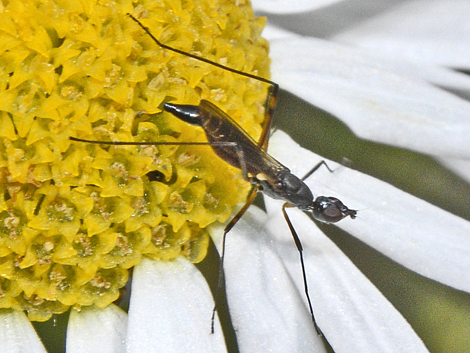 Micropeza cf. corrigiolata. Female. Val Veny, Aosta, Italy